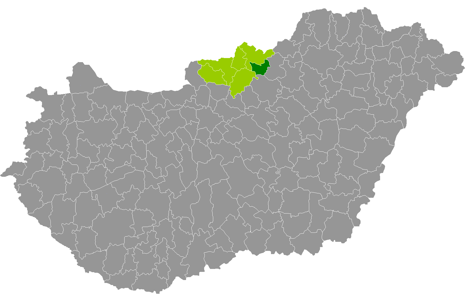 Location of Bátonyterenye District, Nógrád, Hungary